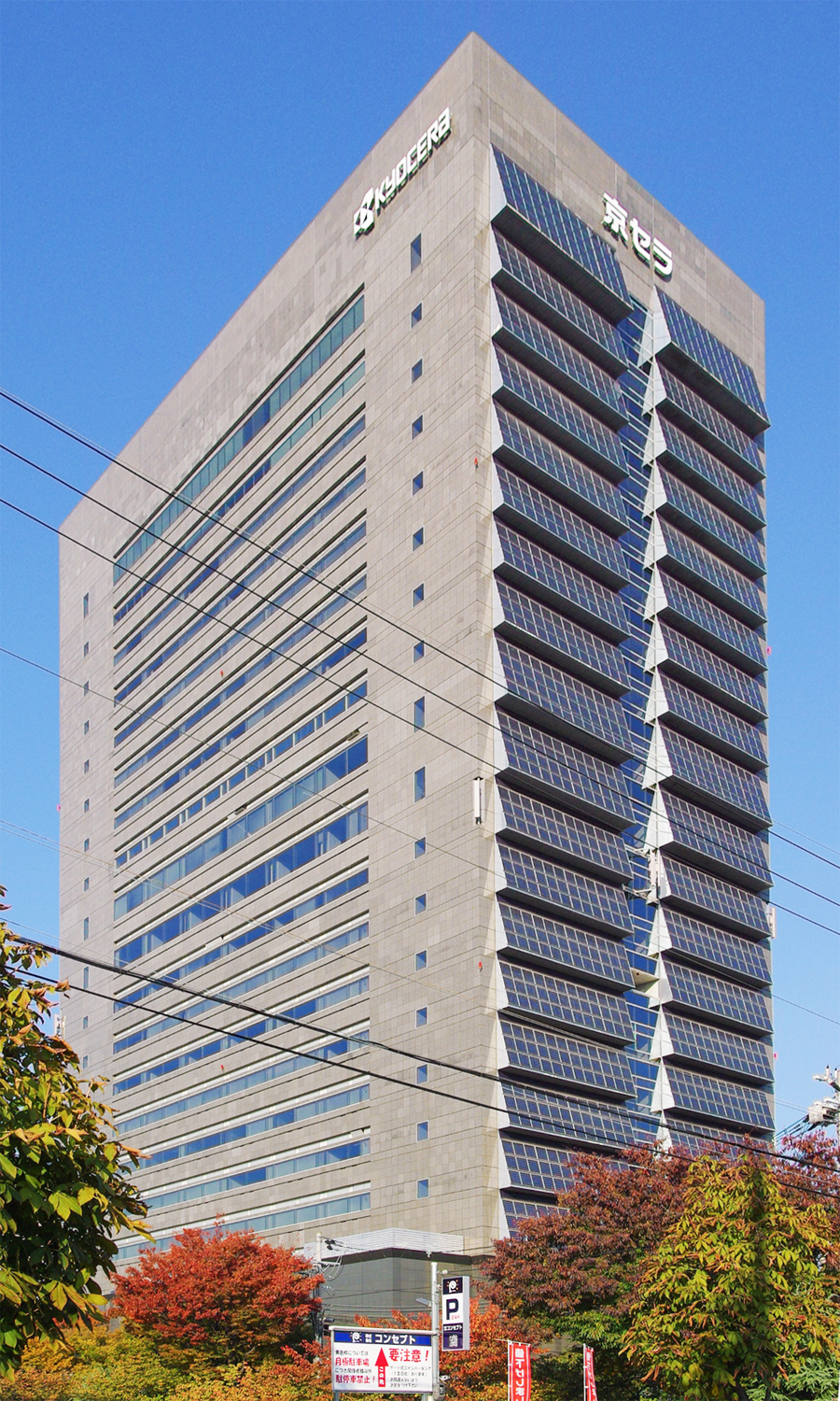 Photograph of the southwest view of Kyocera Headquarters Building, with numerous solar power panels, in Fushimi-ku, Kyoto, Kyoto Prefecture, Japan.